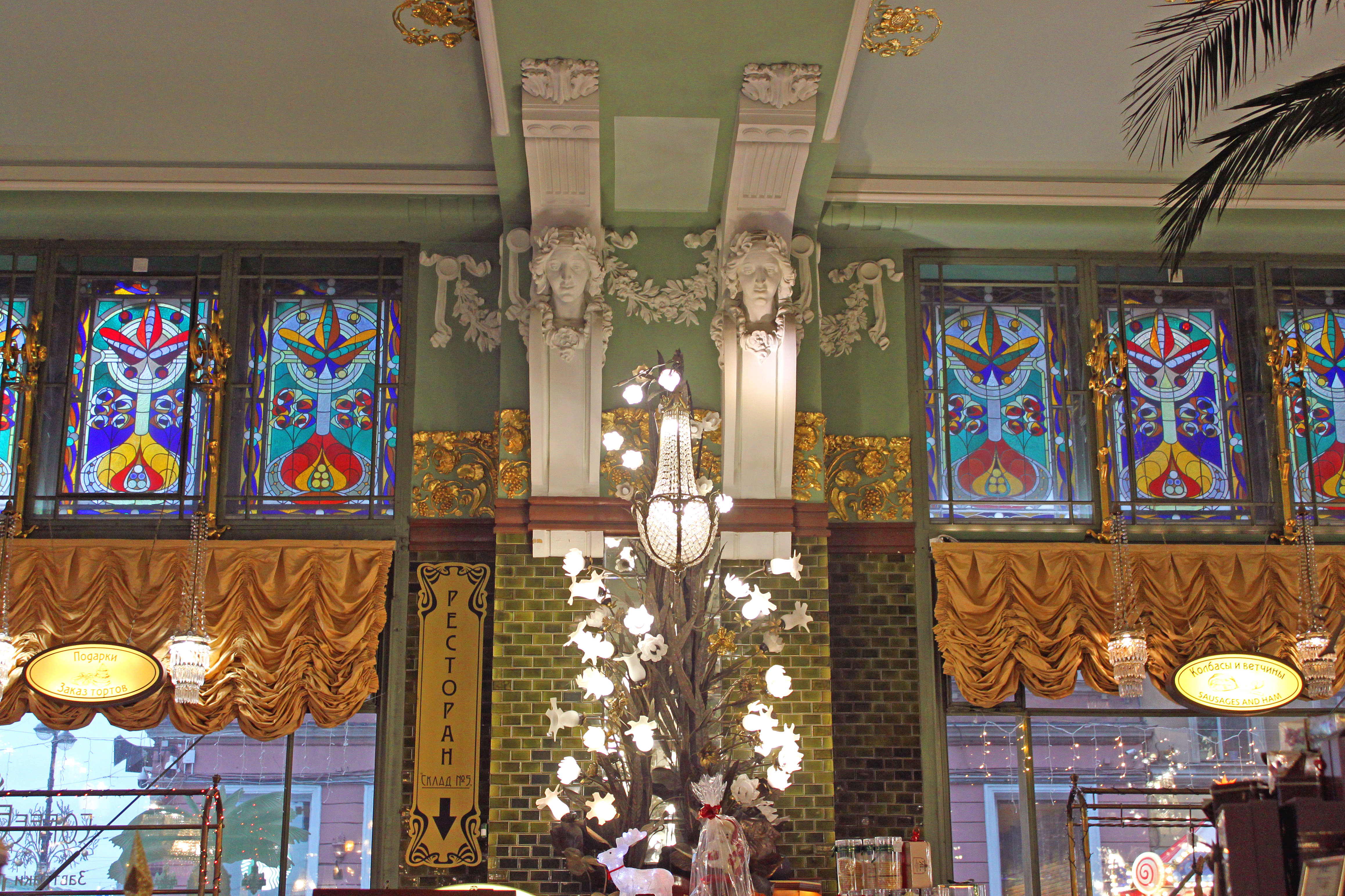 Trading house "Brothers Eliseevy". Interiors of the trading floor: Nevsky Prospect, 56 / Malaya Sadovaya Street, 8. St. Petersburg